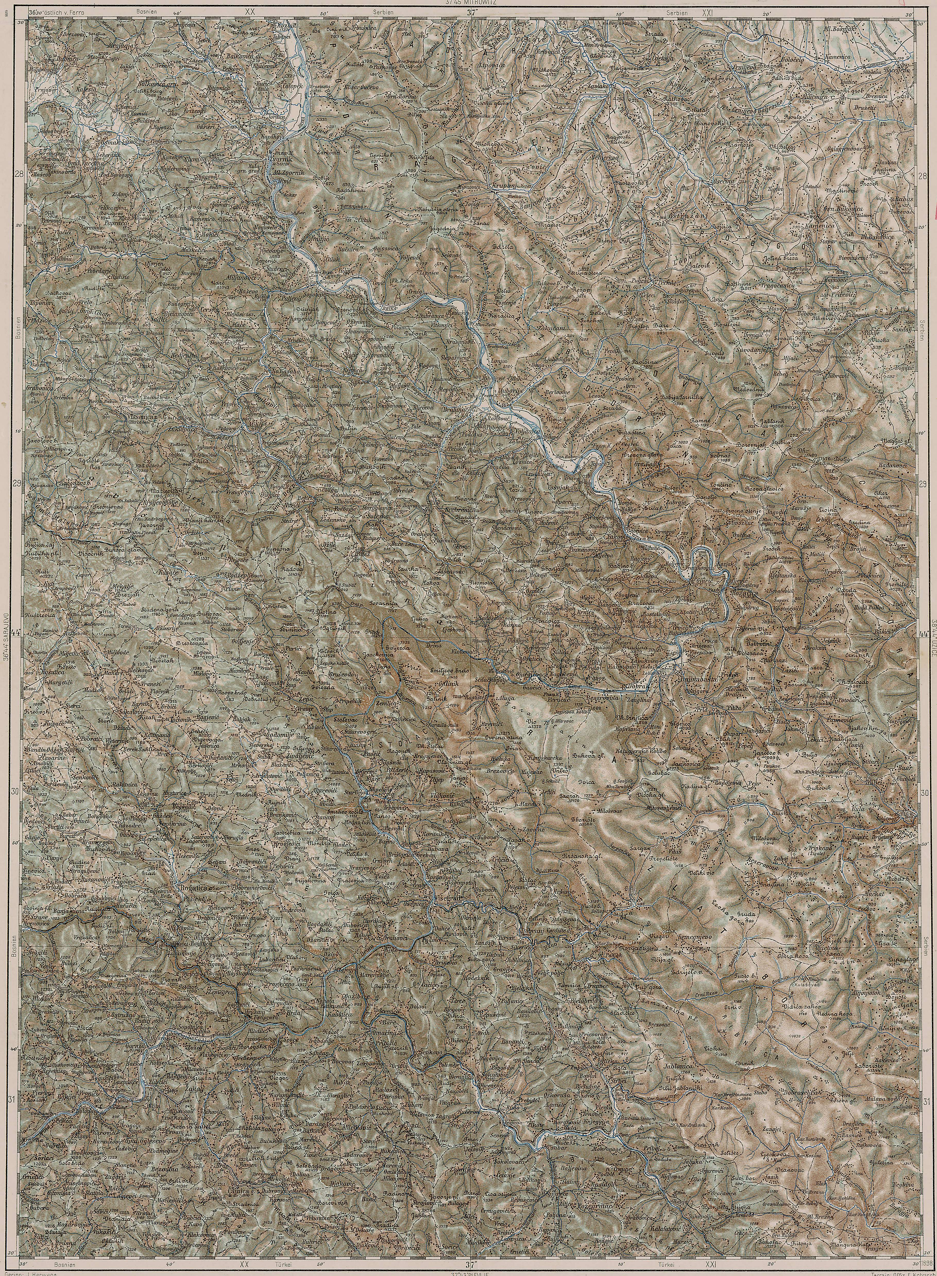 3rd Military Mapping Survey of Austria-Hungary - Zvornik